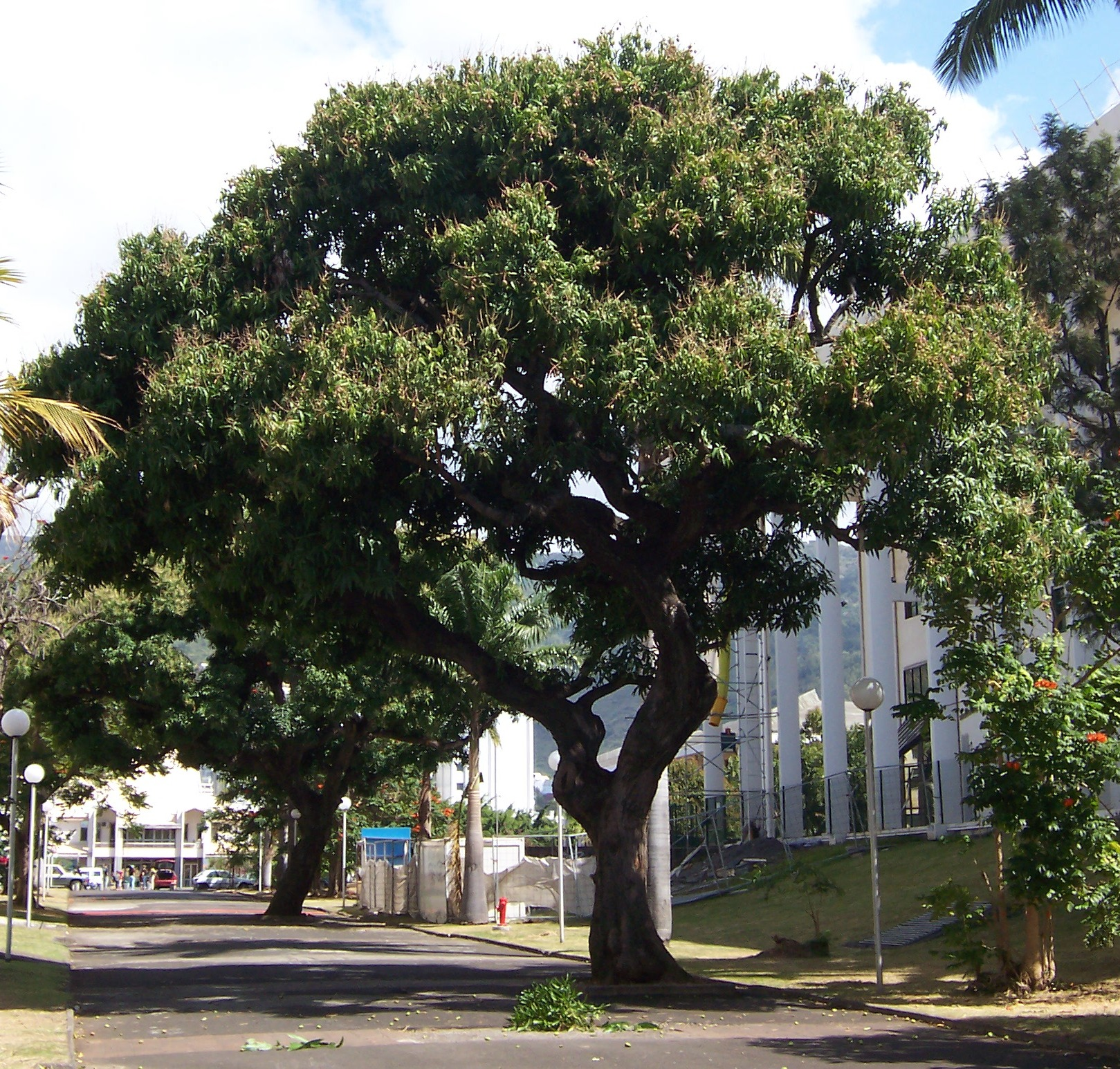 Mango tree (Mangifera indica) - old tree in town, Réunion island